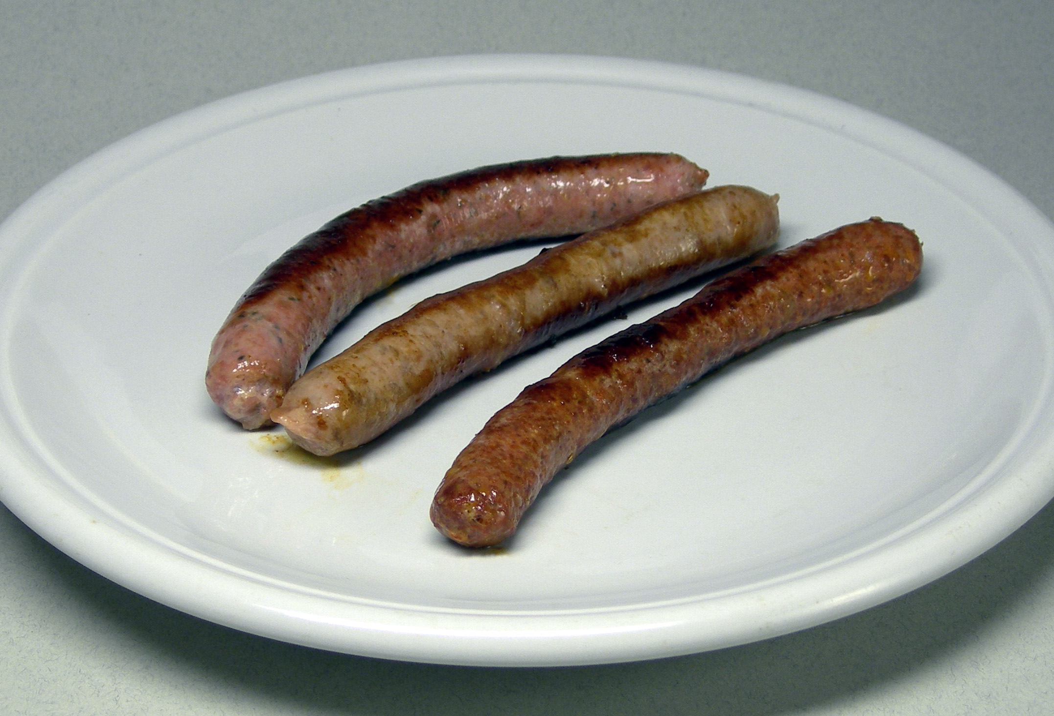 French sausage made out of duck, Italian sausage made out of pork and Moroccon Merguez made out of lamb, roasted